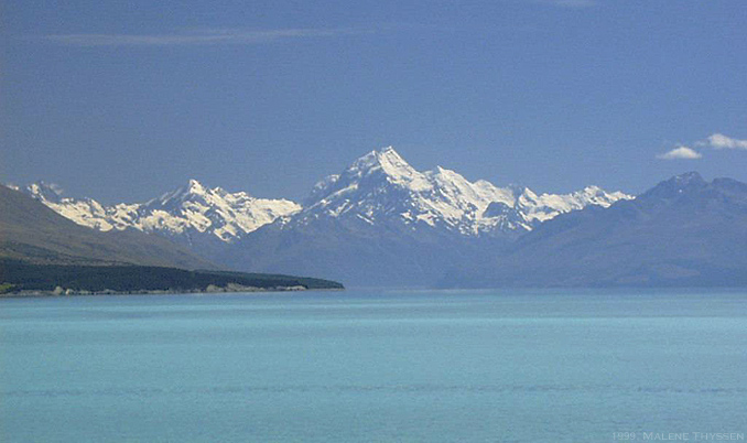 Mount Cook, New Zealand, with the turqoise Lake Pukaki in front.